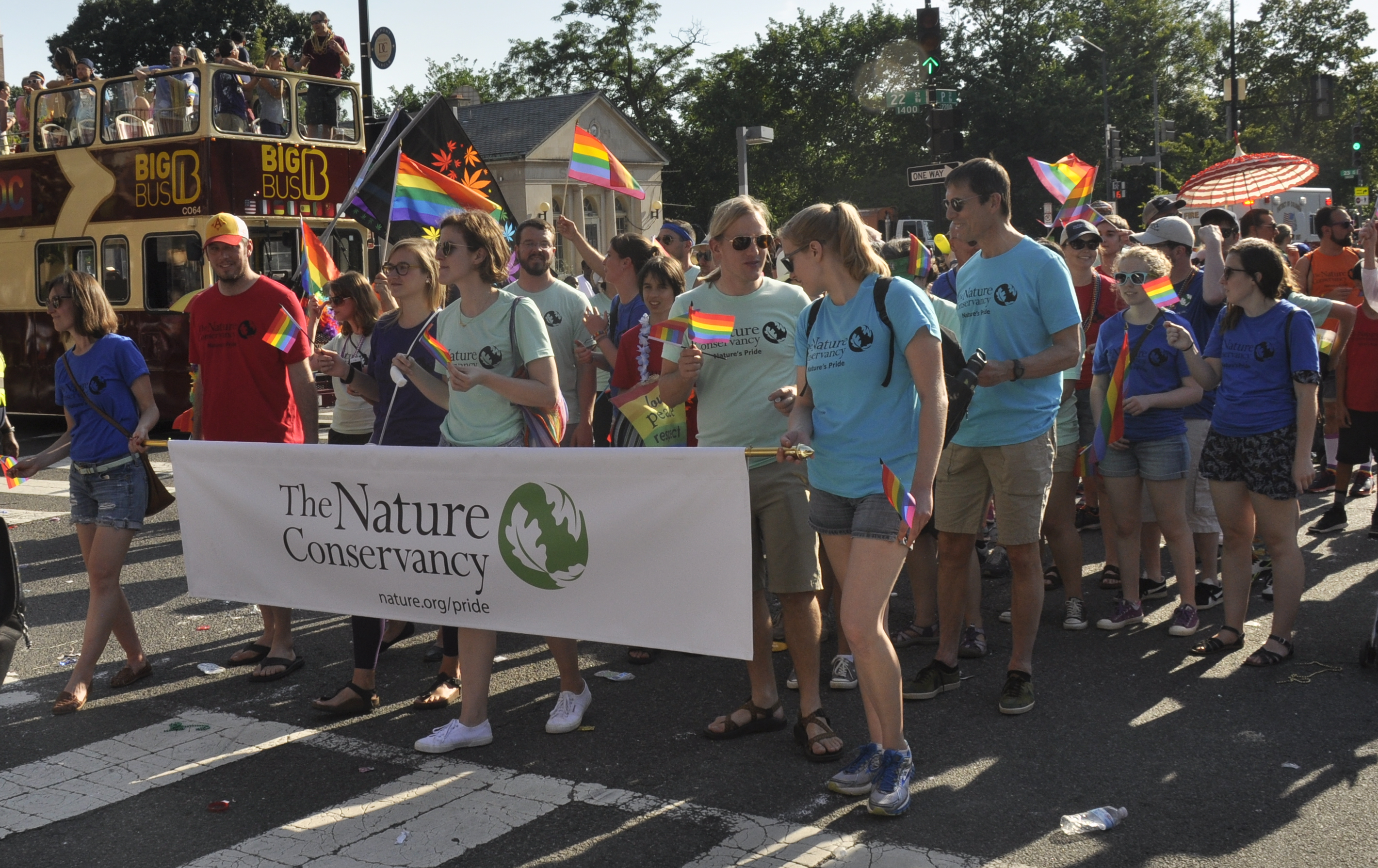 2017 Capital Pride in Washington, D.C.